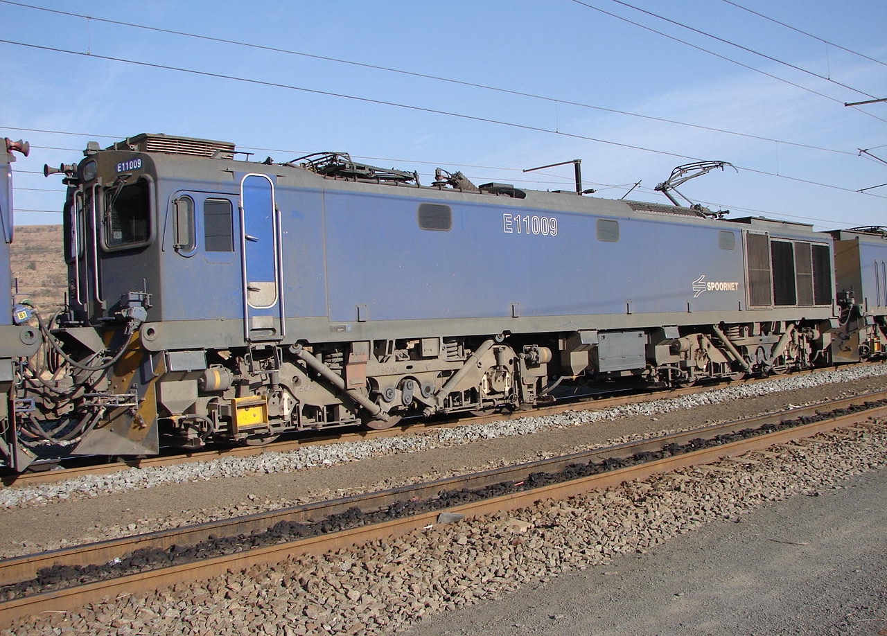 SAR Class 11E 11-009 Builder's Number: GMSA 119.09 Type: GM5FC Location: Vryheid, Kwa-Zulu Natal